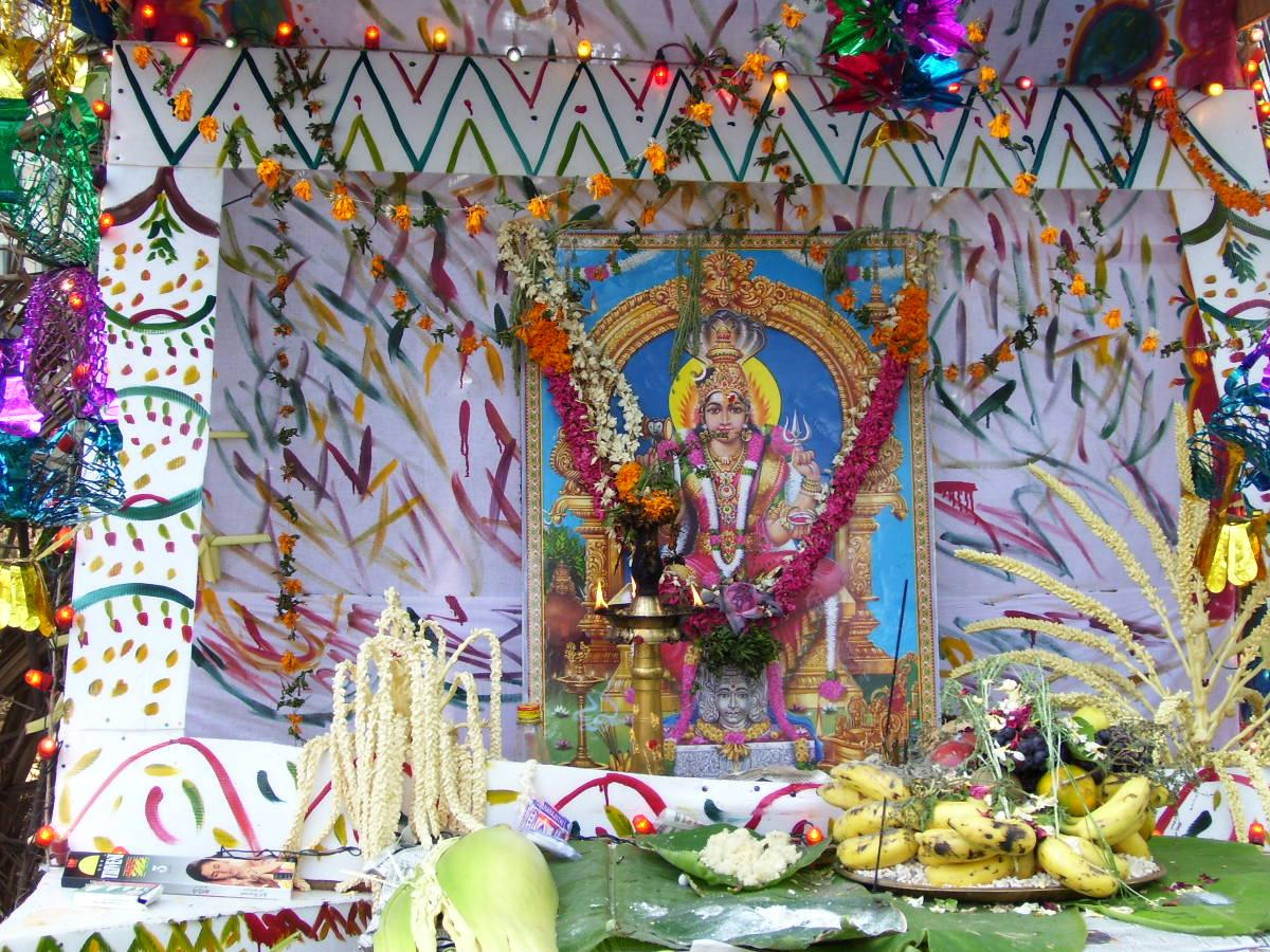 Attukkal Bhagavathy Amman Pongale